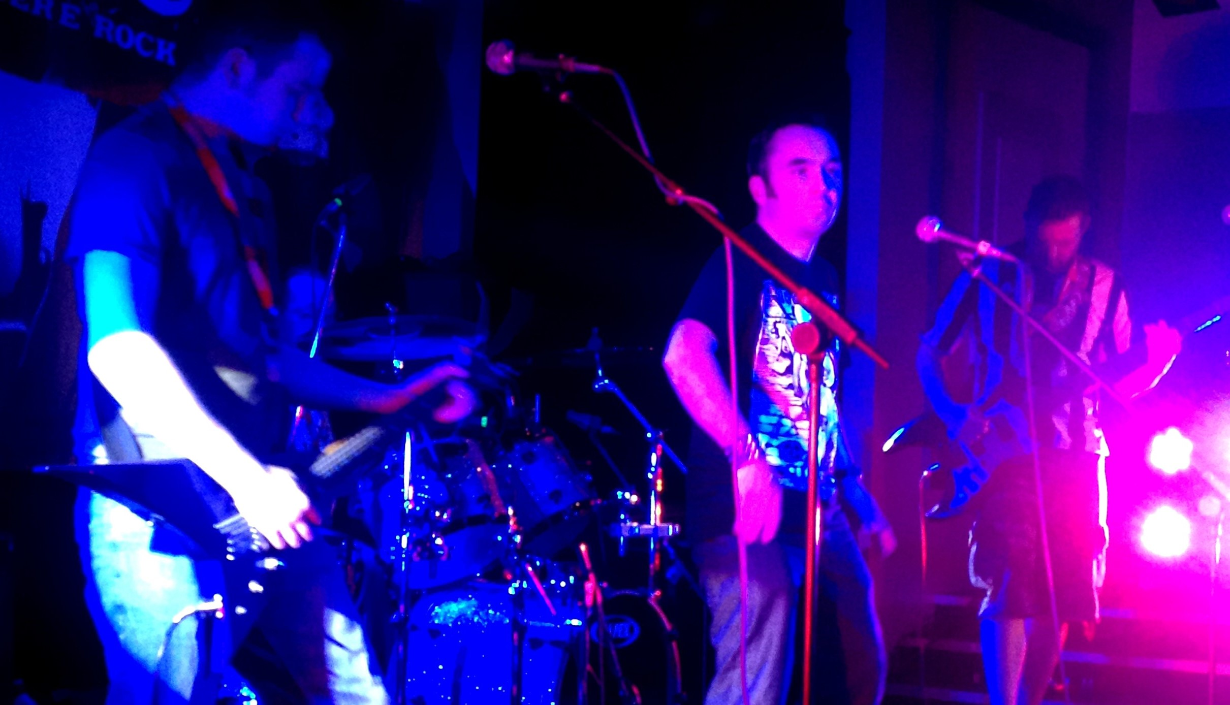 Picture taken during a concert at Planet Rockstock in Great Yarmouth on December 7th 2013 with strict permission by the band!